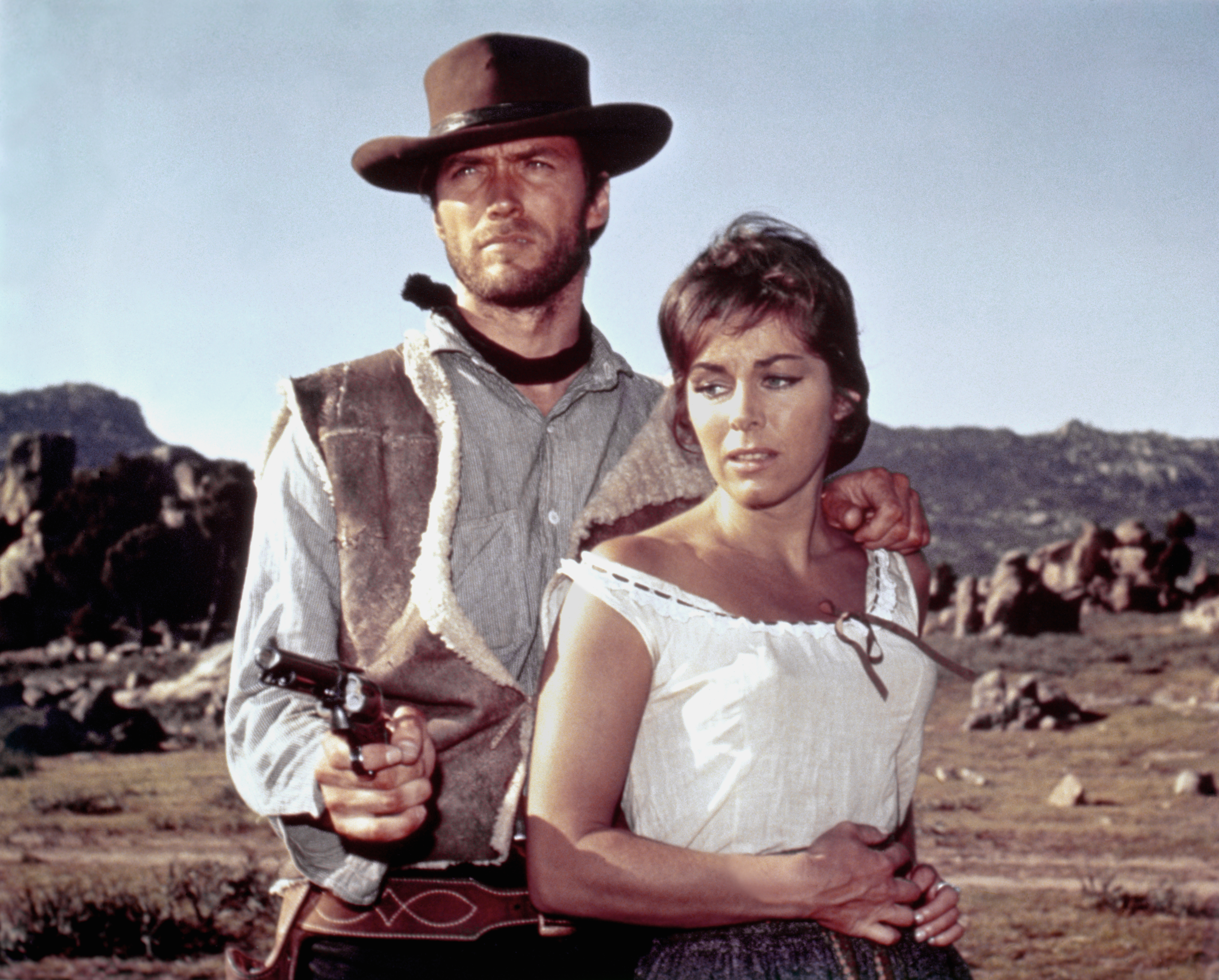 Clint Eastwood and Marianne Koch in A Fistful of Dollars, directed by Sergio Leone